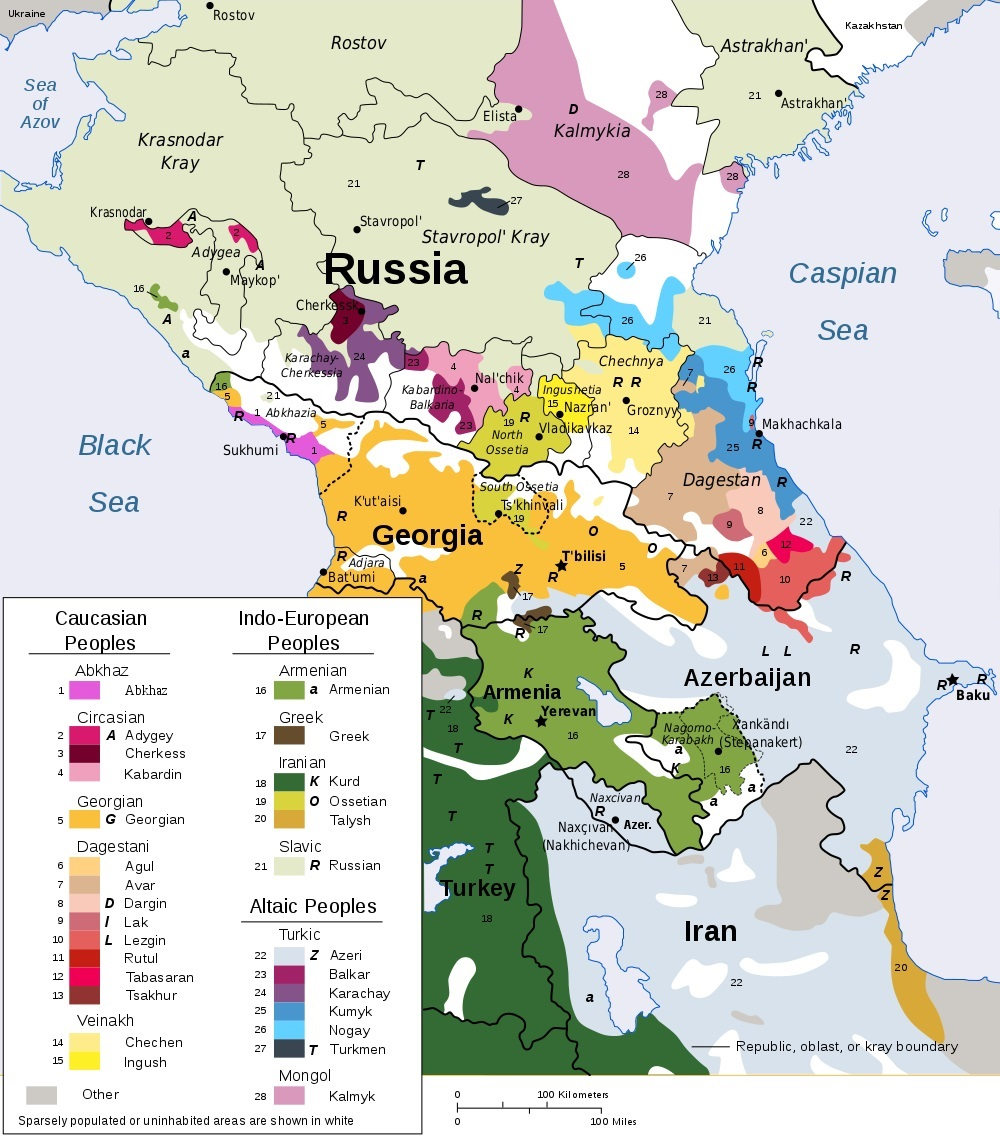 Ethnic Groups in the Caucasus Region, 2009 (English)